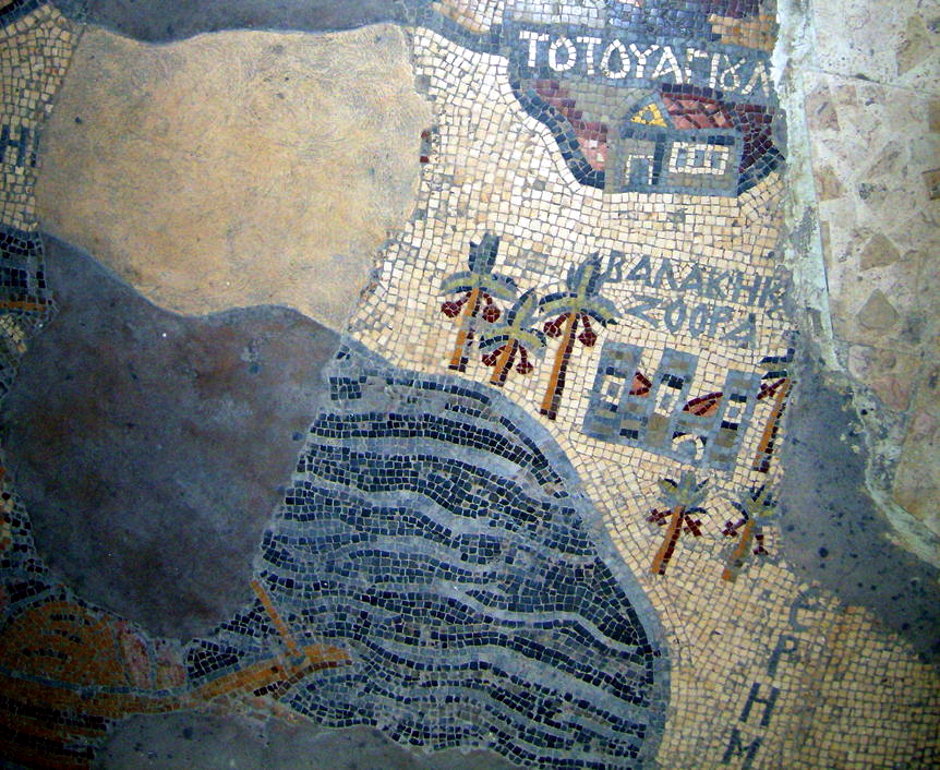 This is the Byzantine representation of the site believed at that time to be the biblical site of Zoar (Zoara).